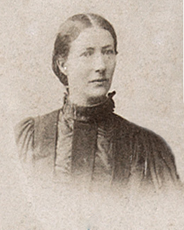 Susy Sutermeister Eugens Sutermeister wife